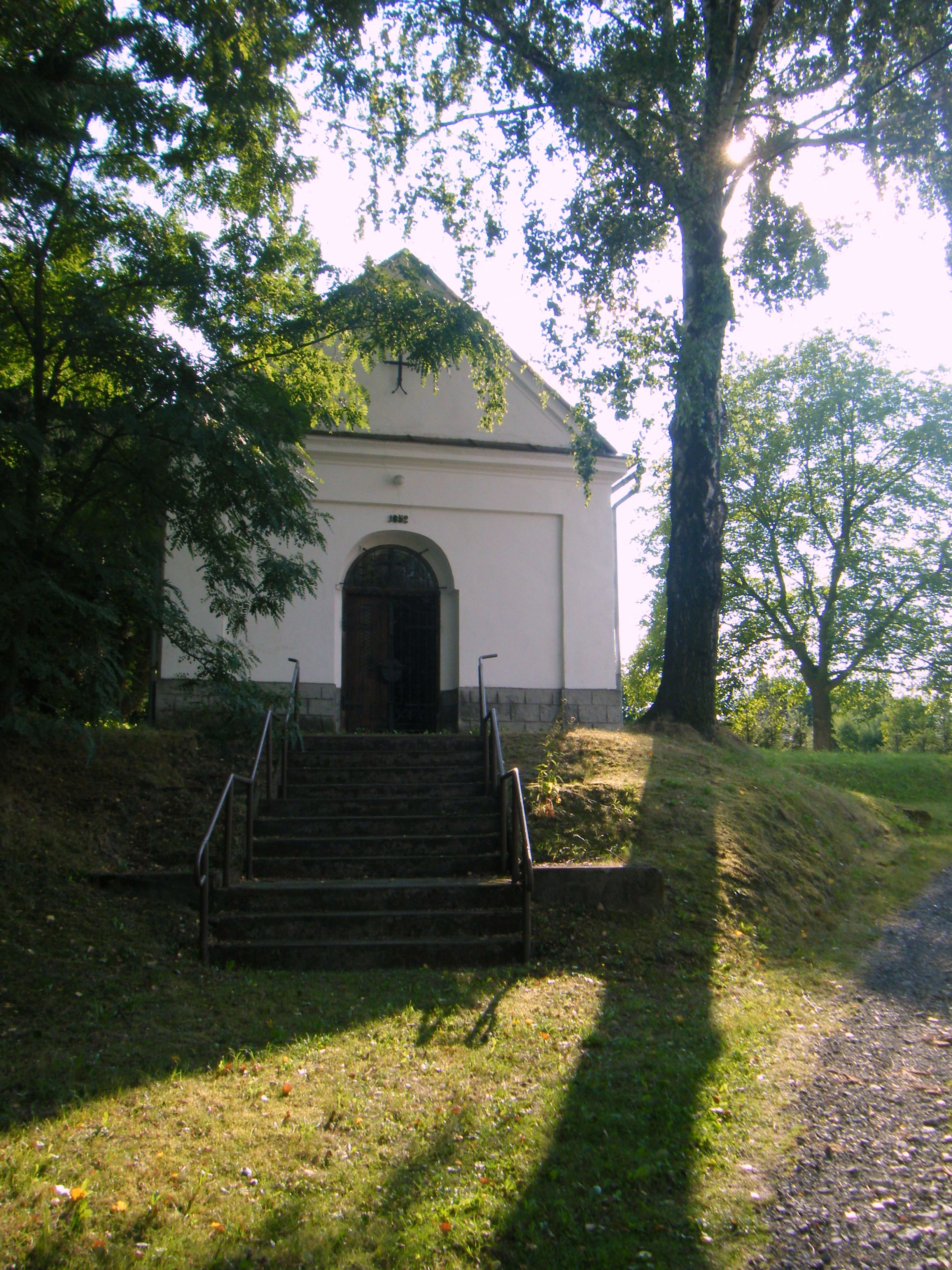 Studénka-Butovice, St Anna Chapel, general frontal view